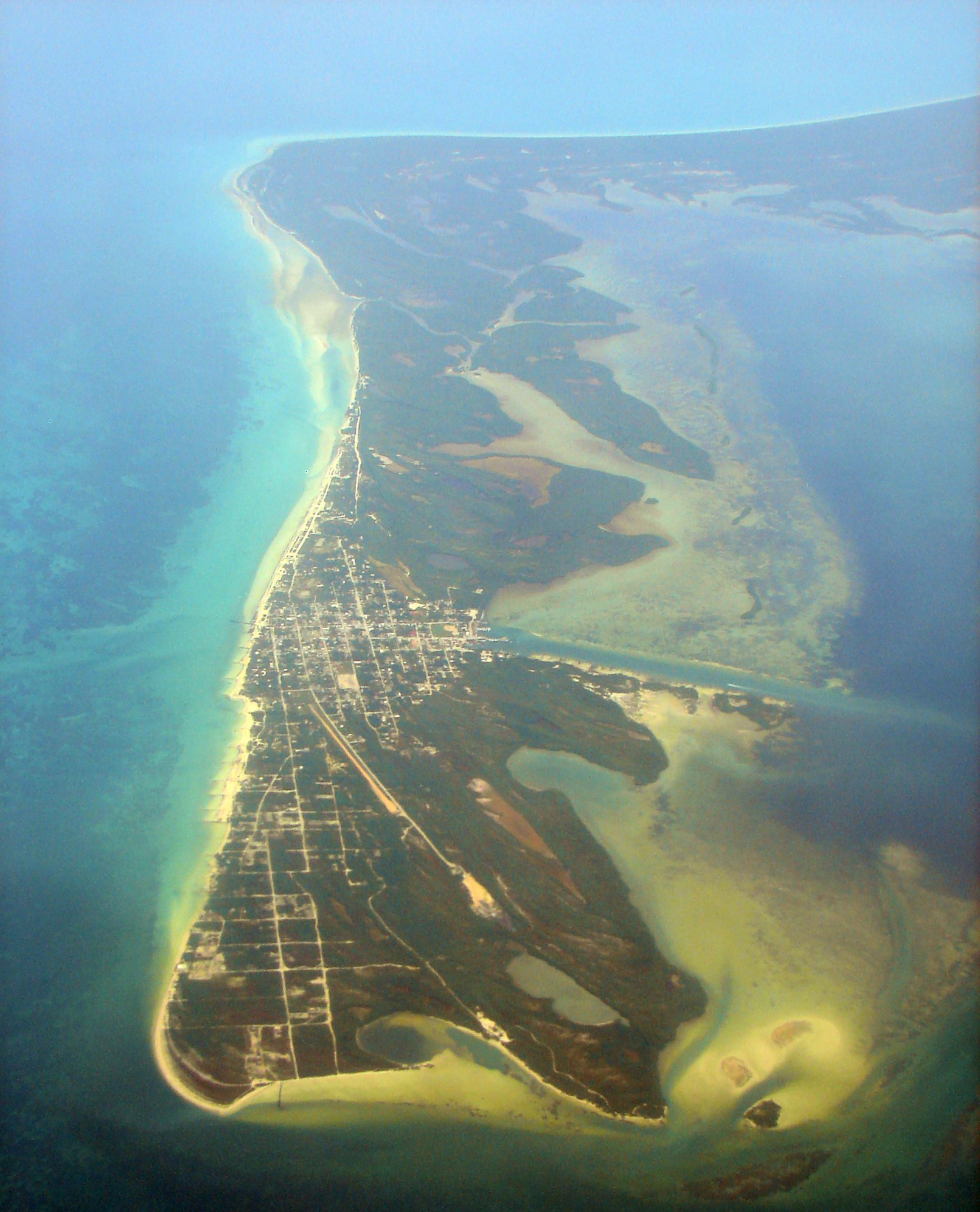 Aerial view of Holbox, Quintana Roo, Mexico